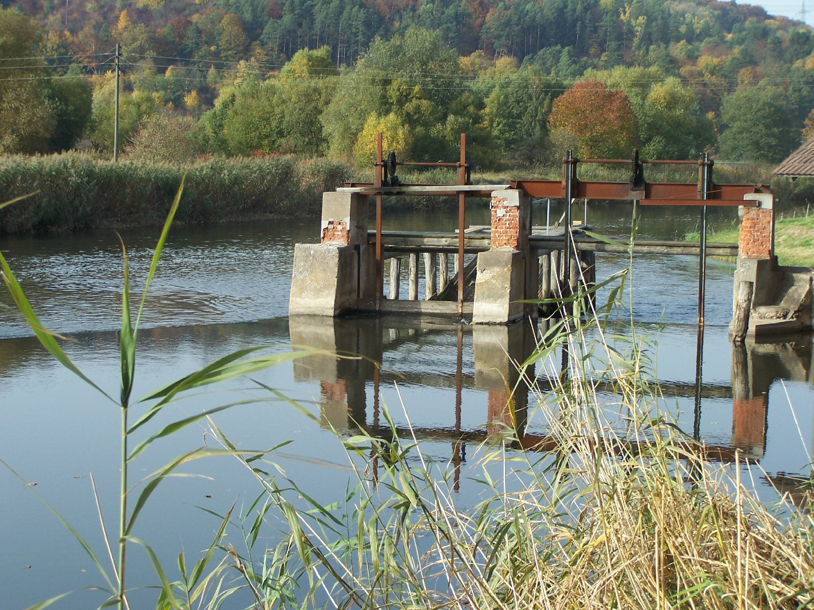 Sallmannshausen, at the mill.